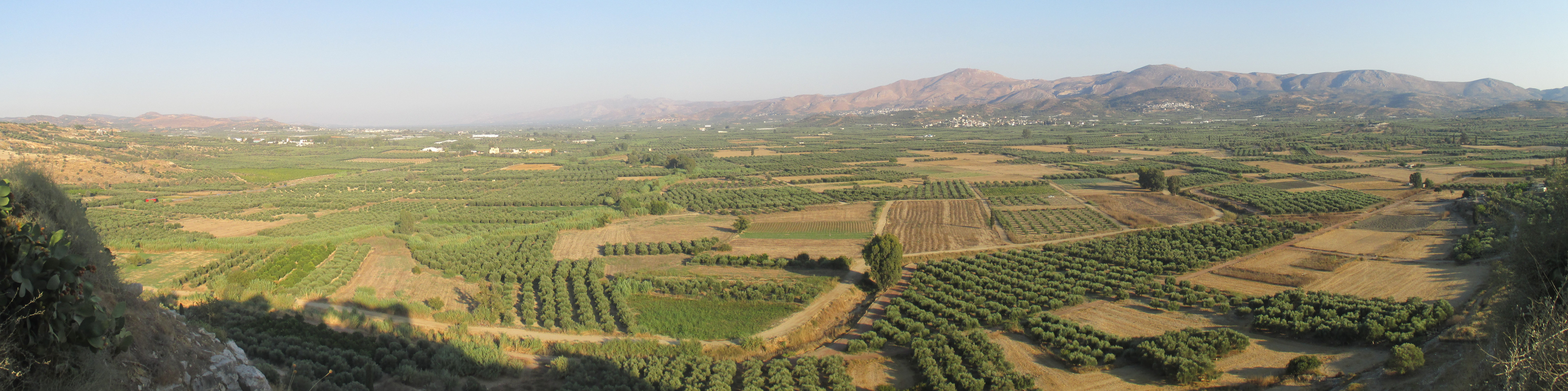 Messara Plain, Crete. View to east from Phaestos (Phaestus, Faistos) palace.